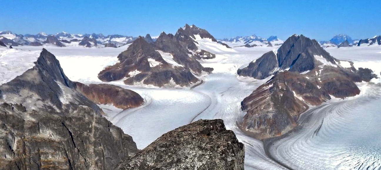 The Snow Towers of Juneau Icefield as seen from Mount Ernest Gruening